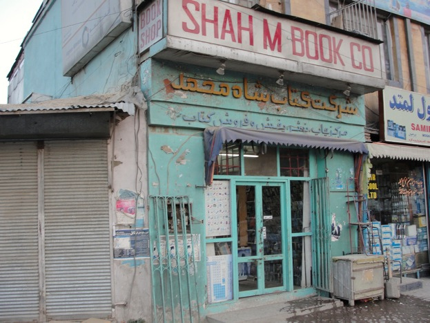 The famous Shah Mohammed Bookstore, the one from the „Bookseller of Kabul“ by Asne Seierstad. Strange selection of very expensive books. I bought second hand „Nachtzug nach Lissabon“ for 9 USD.